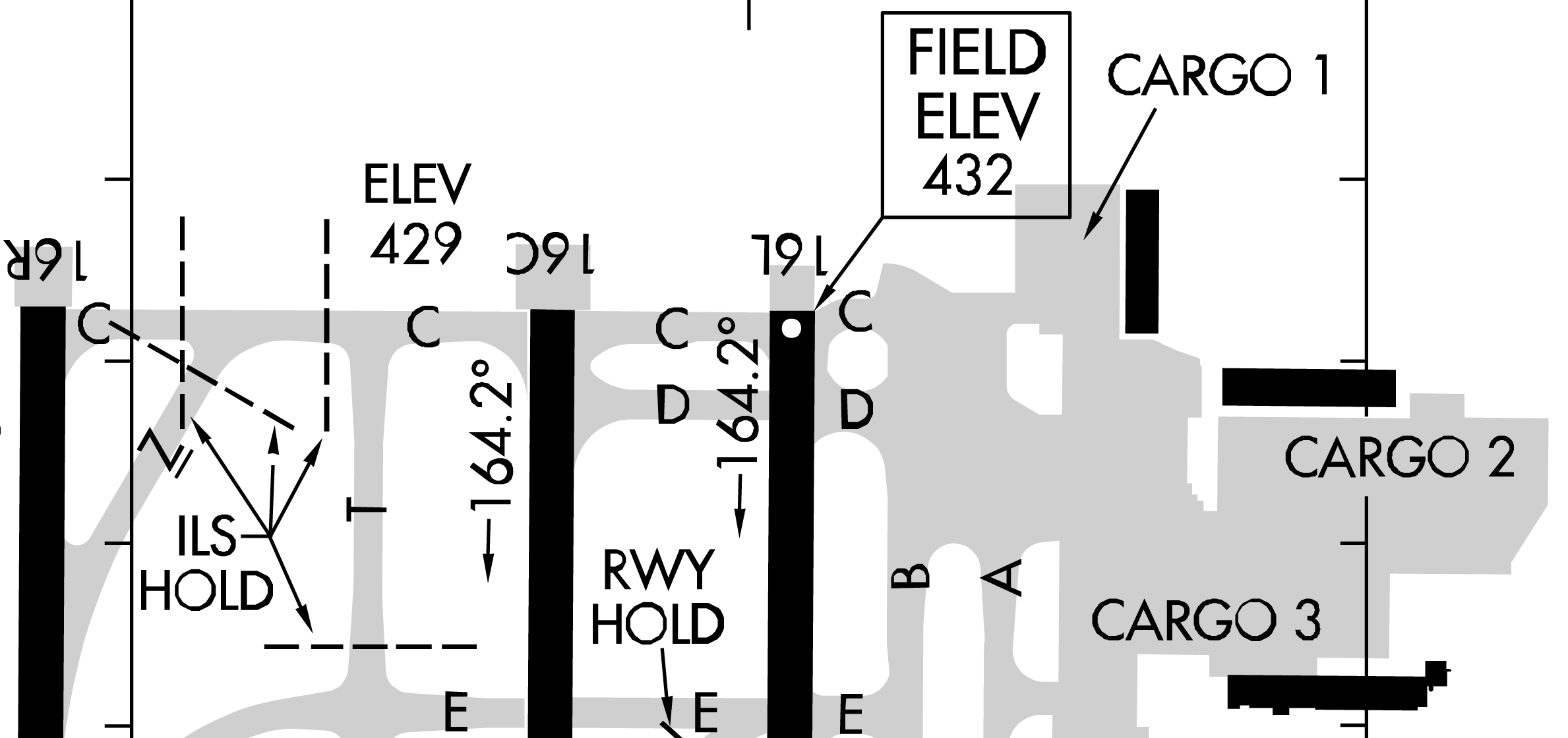 Cropped version of the FAA chart for Seattle-Tacoma International Airport, showing the northern end from the top of the airport to taxiway E and Cargo 3. From AIRAC 1811.